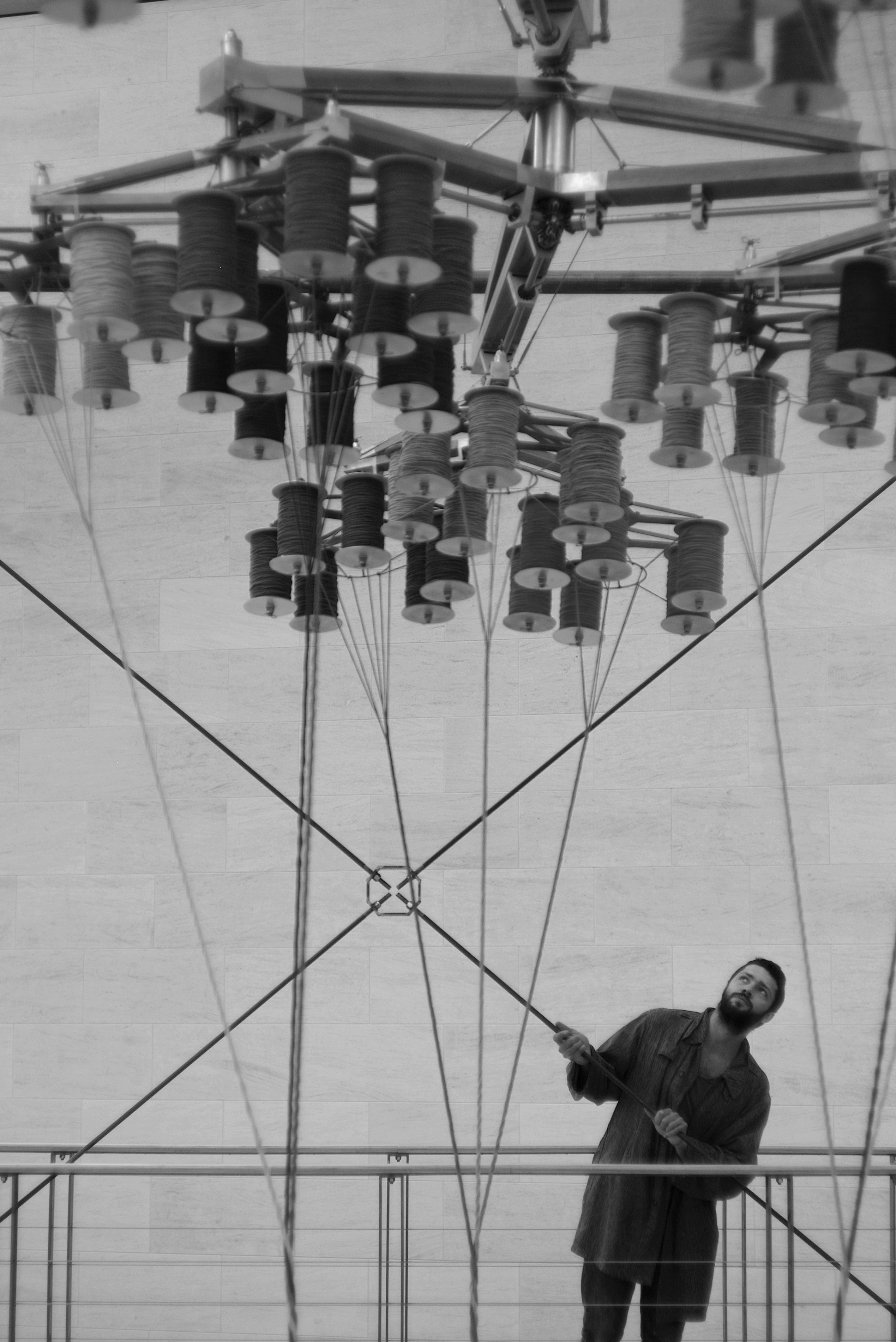 Conrad Shawcross checking his work "The Nervous Systems (Inverted)", in 2011